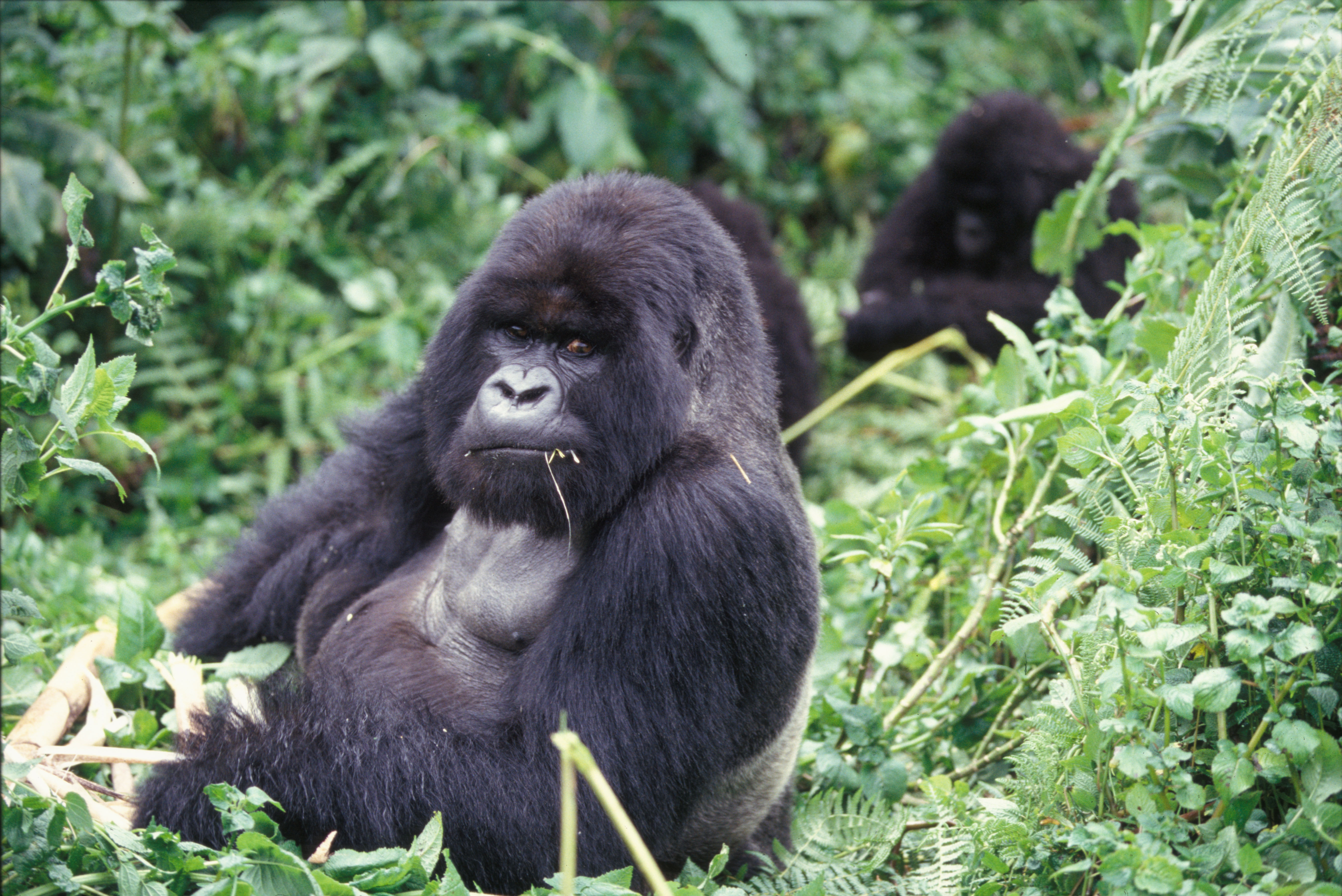 Credit: Richard Ruggiero/USFWS